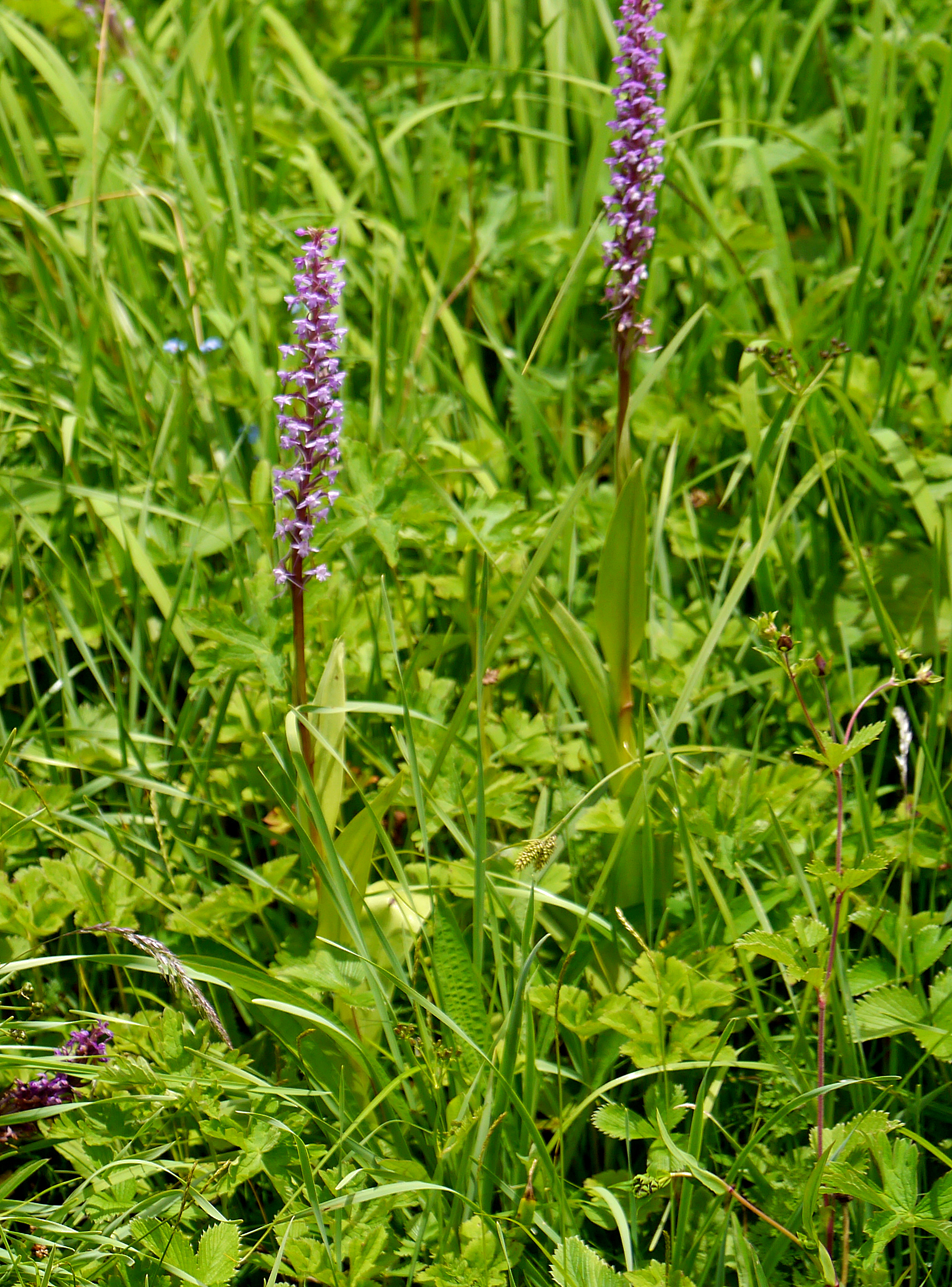 Dactylorhiza hatagirea and Gymnadenia orchidis